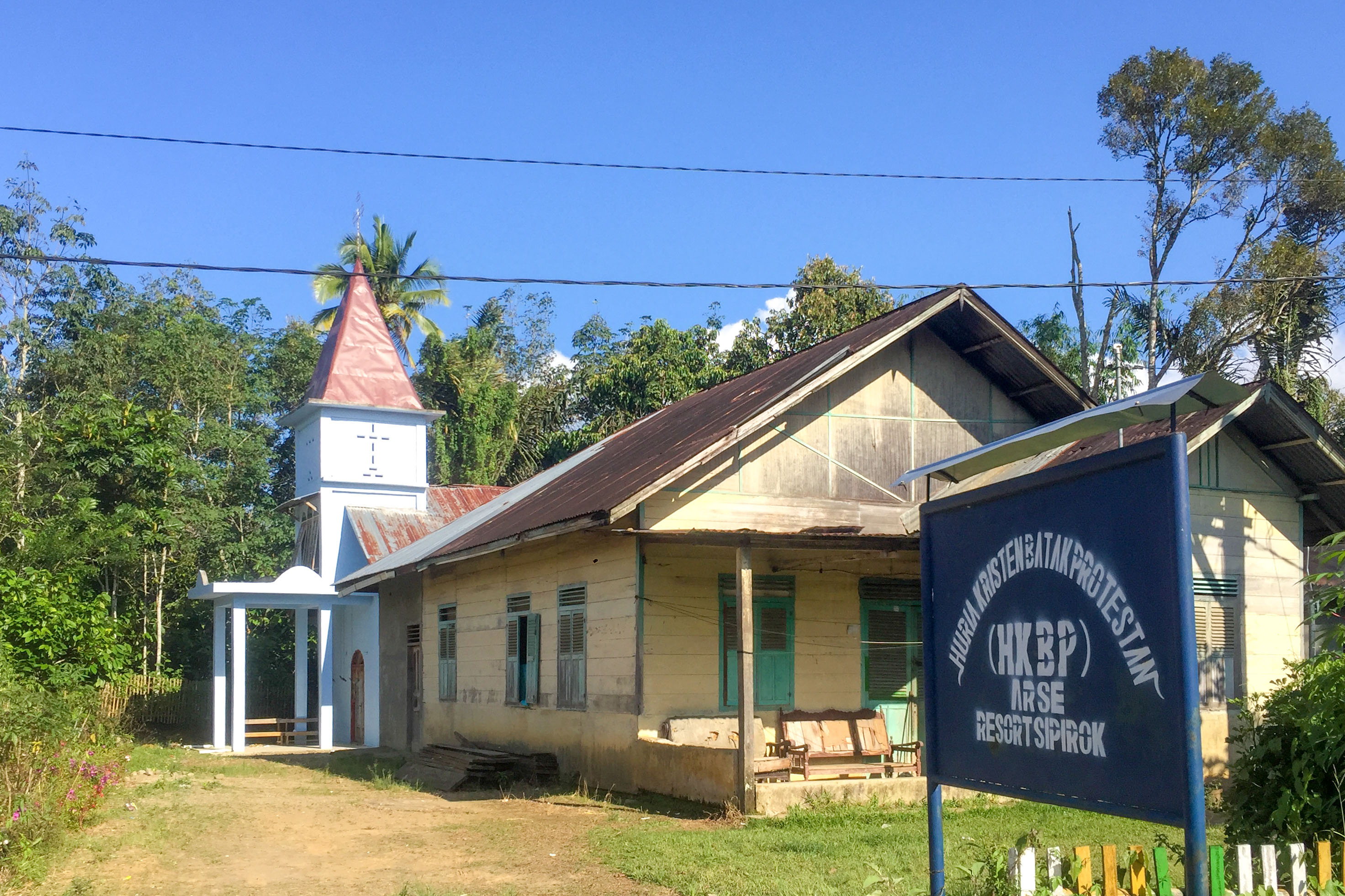 HKBP Arse, Church in Arse, Tapanuli Selatan.